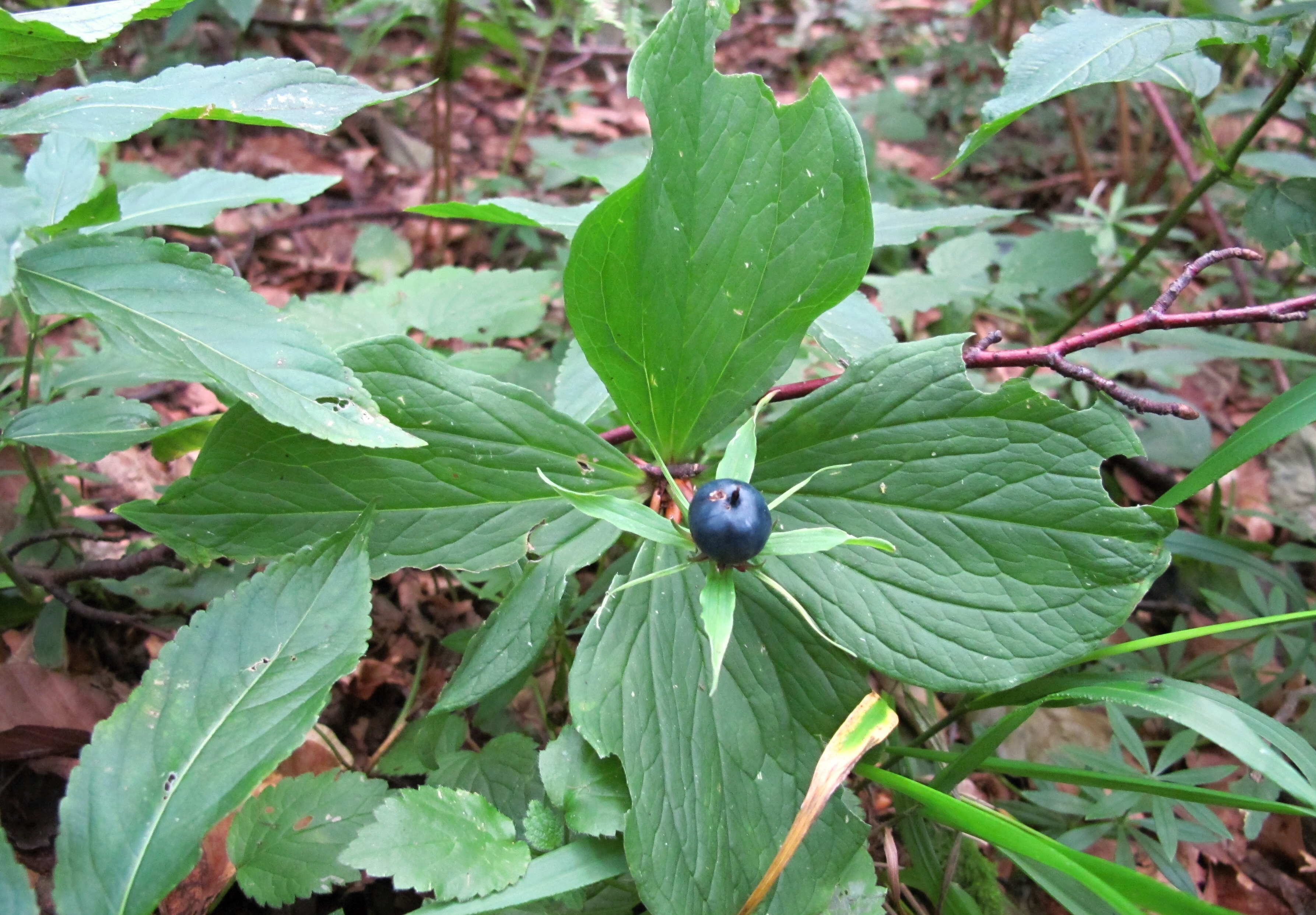 Paris quadrifolia in nature reserve Getsemanka I. and II., near Rožmitál pod Třemšínem in Příbram District (Czech Republic)